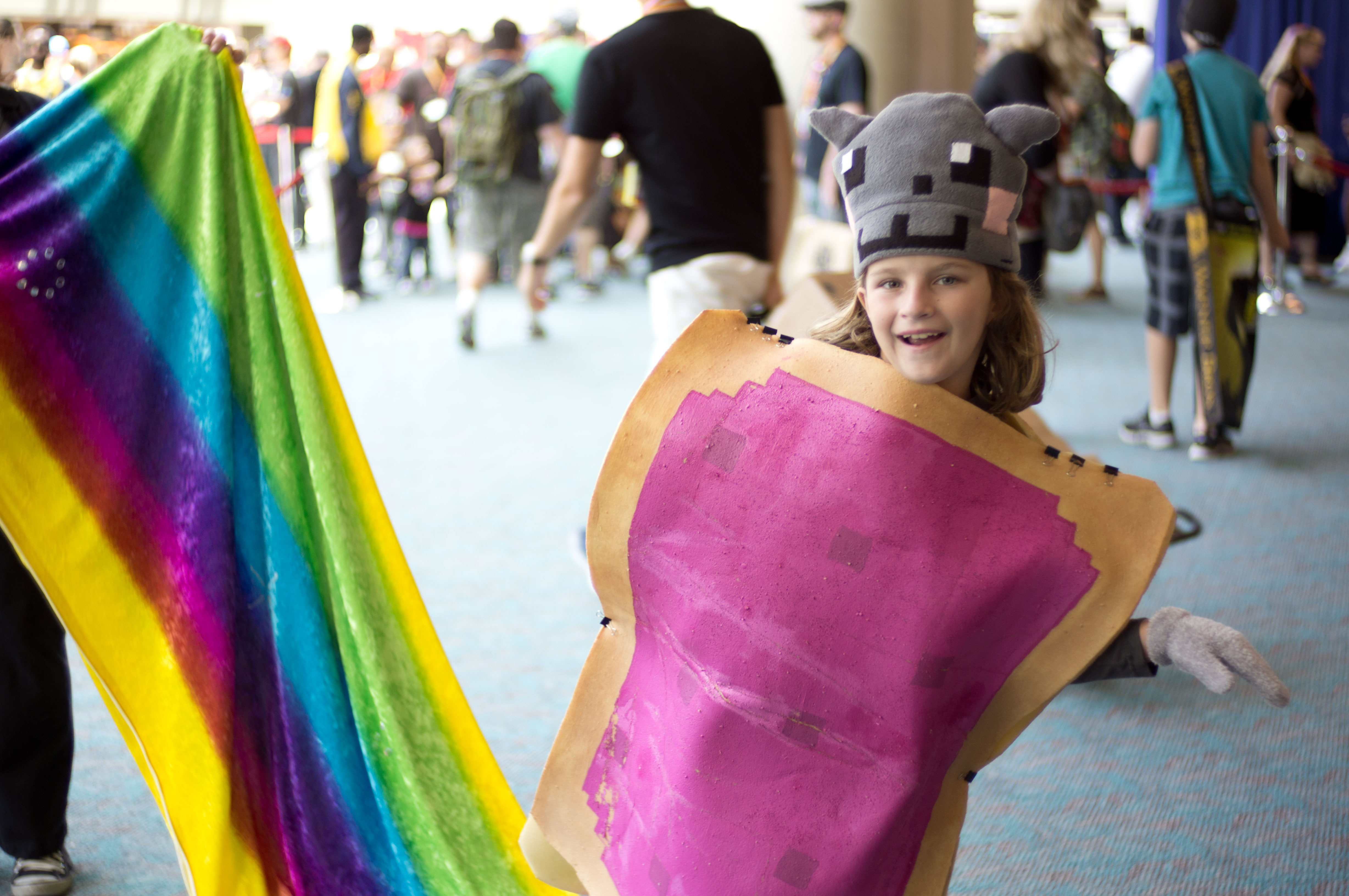 Cosplay at San Diego Comic-Con (SDCC 2012).